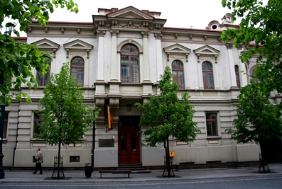 Ministry of Transport and Communications of the Republic of Lithuania